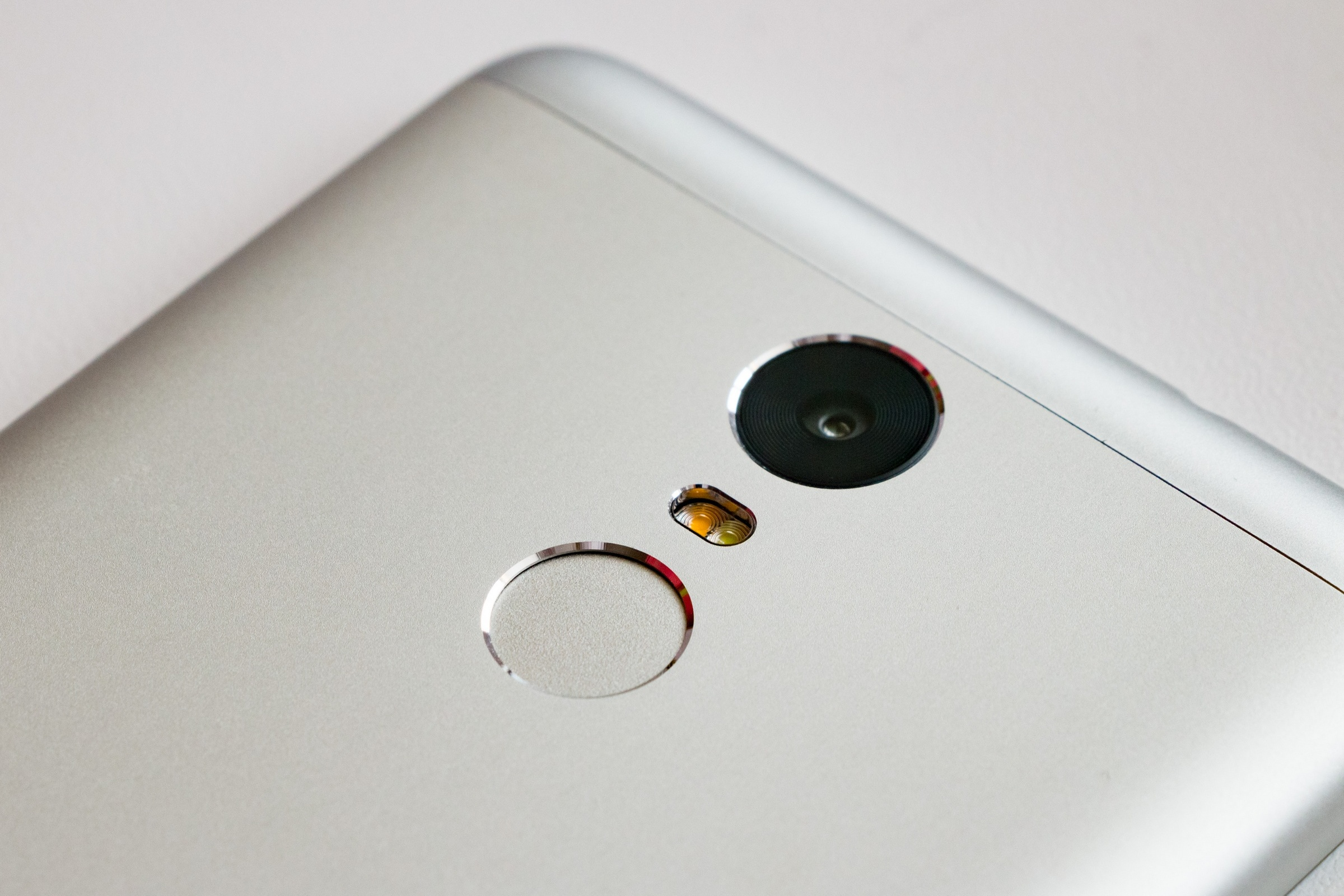 Fingerprint scanner on the back of a Xiaomi Redmi Note 3 smartphone